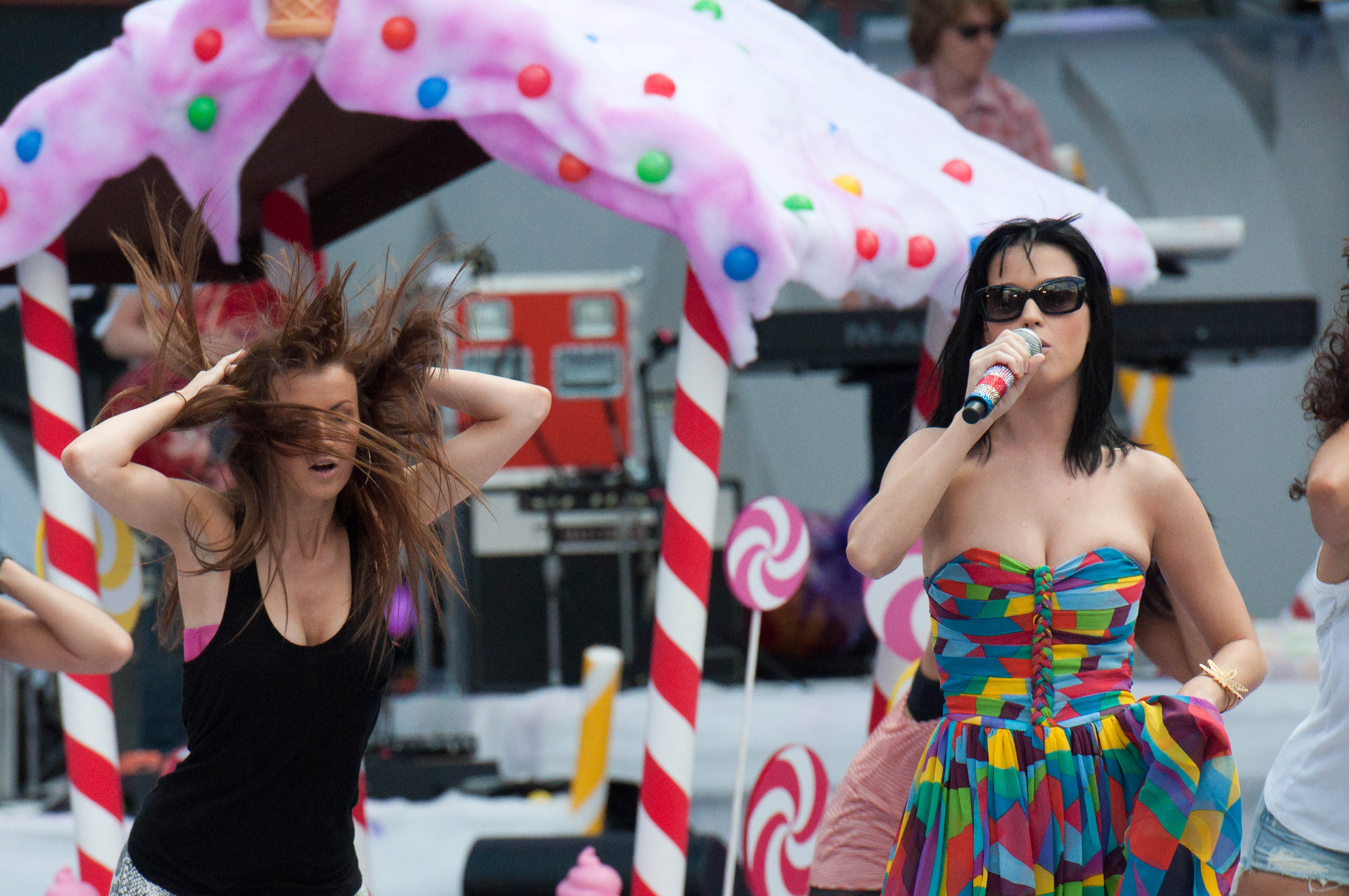 Katy Perry - MMVA Soundcheck